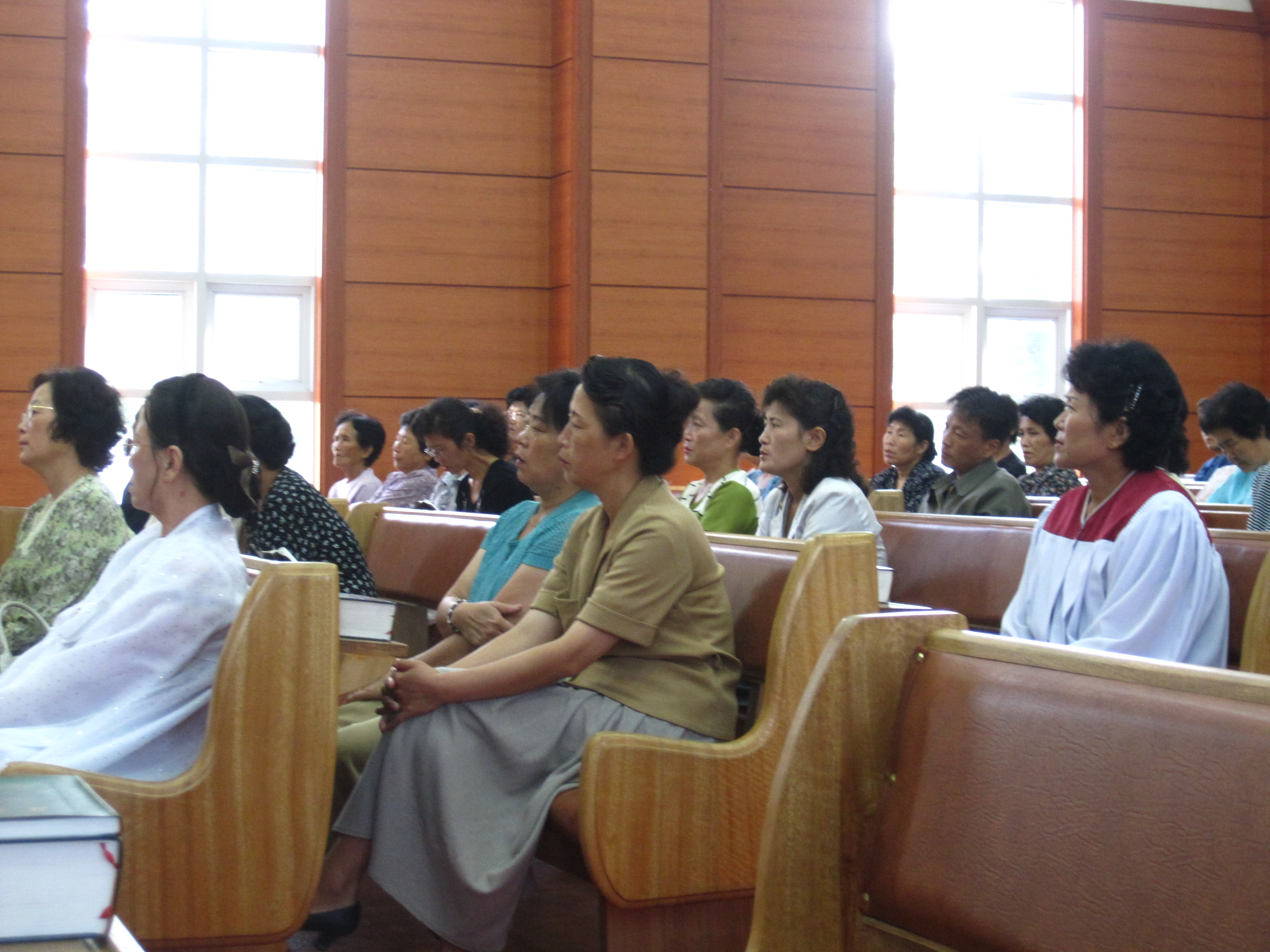 North Korea DPRK